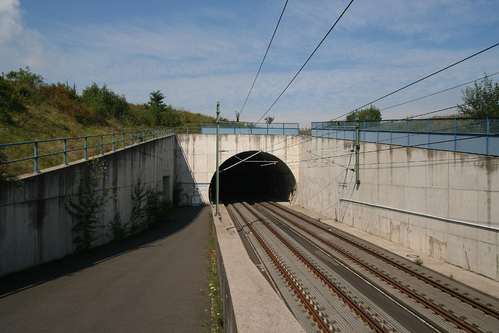 South entrance to Aegidienberg Tunnel